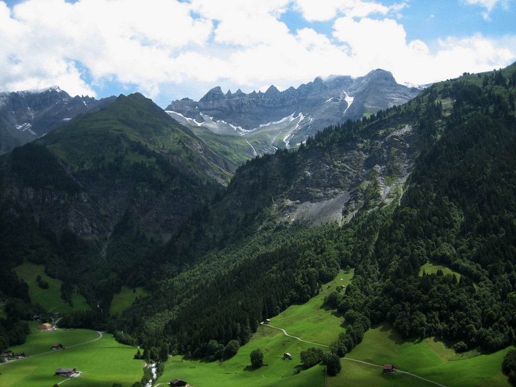 Tschingelhörner from Elm, Sernftal